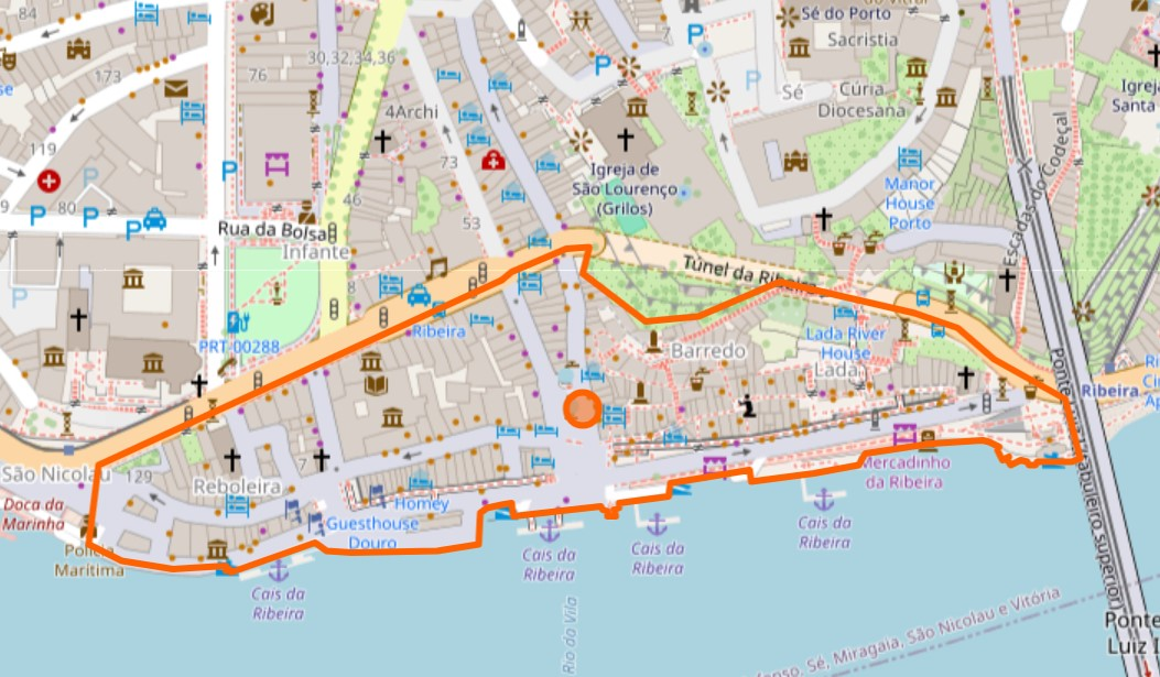 Map with the limits of the waterfront (Ribeira) of Oporto